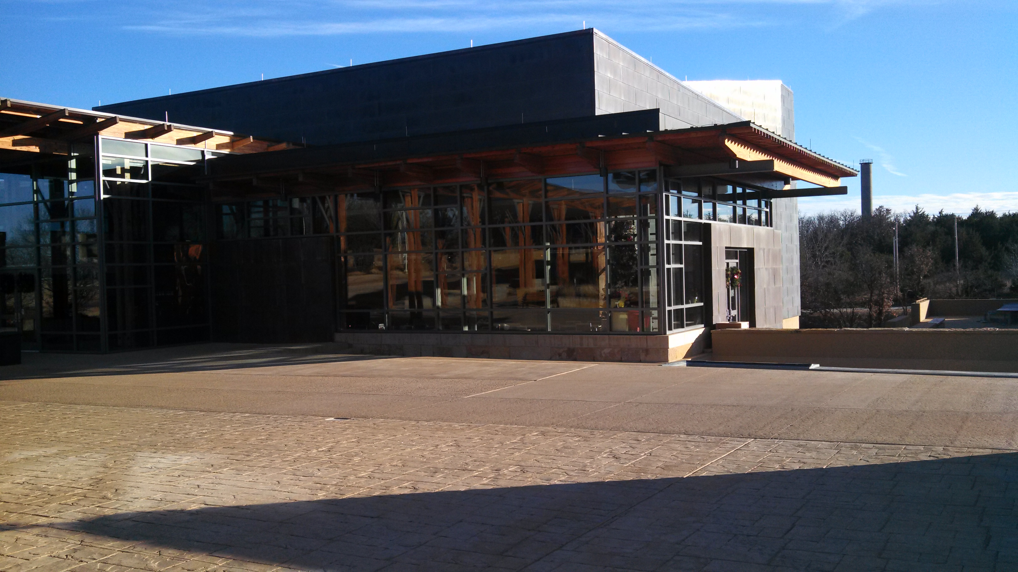 Chickasaw Cultural Center near Sulpur, Oklahoma, theater building. December 2013.